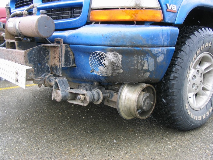 HiRail wheel